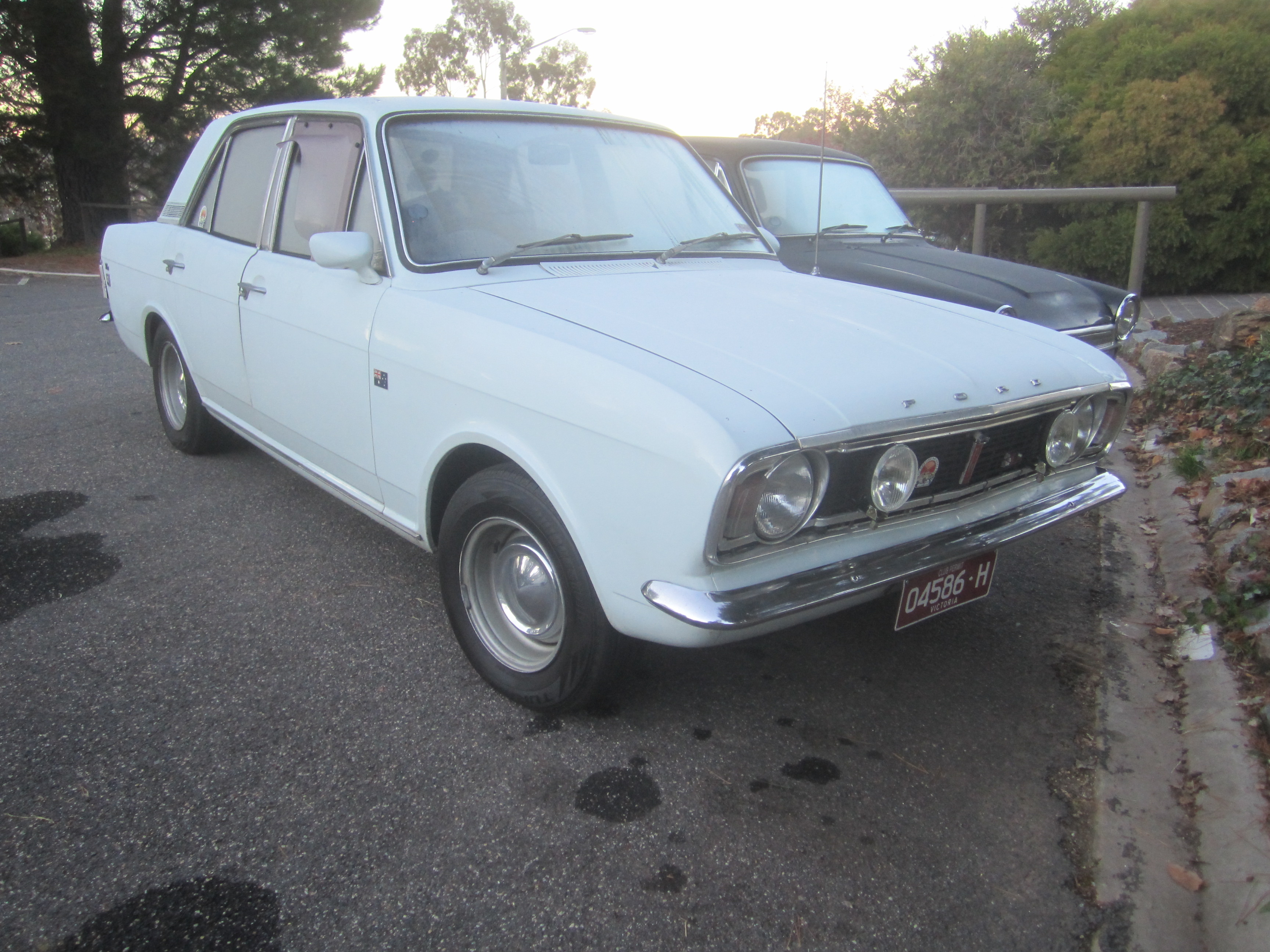 The Mk II Cortina, built from 1966-70 was a squarer, boxier shape than the Mk I. Engines were initially carried over from the Mk I but replaced in 1967 with the 1600 with the cross flow head. A mild facelift in 1969 saw separate F O R D letters on bonnet and boot, a black grille and chrome above and below the tail lights. In England and NZ the models were; Base, Deluxe, Super, GT and in 1967, 1600E (NZ GTE). Australian models were 220, 240, 440, 440L, GT and GTL. This car, the 440L, got the walnut dash, bucket seats and fog lights. Photographed at the 1st Cortina Nationals in Albury, Australia.